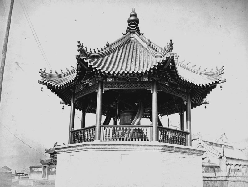 Hai guang temple